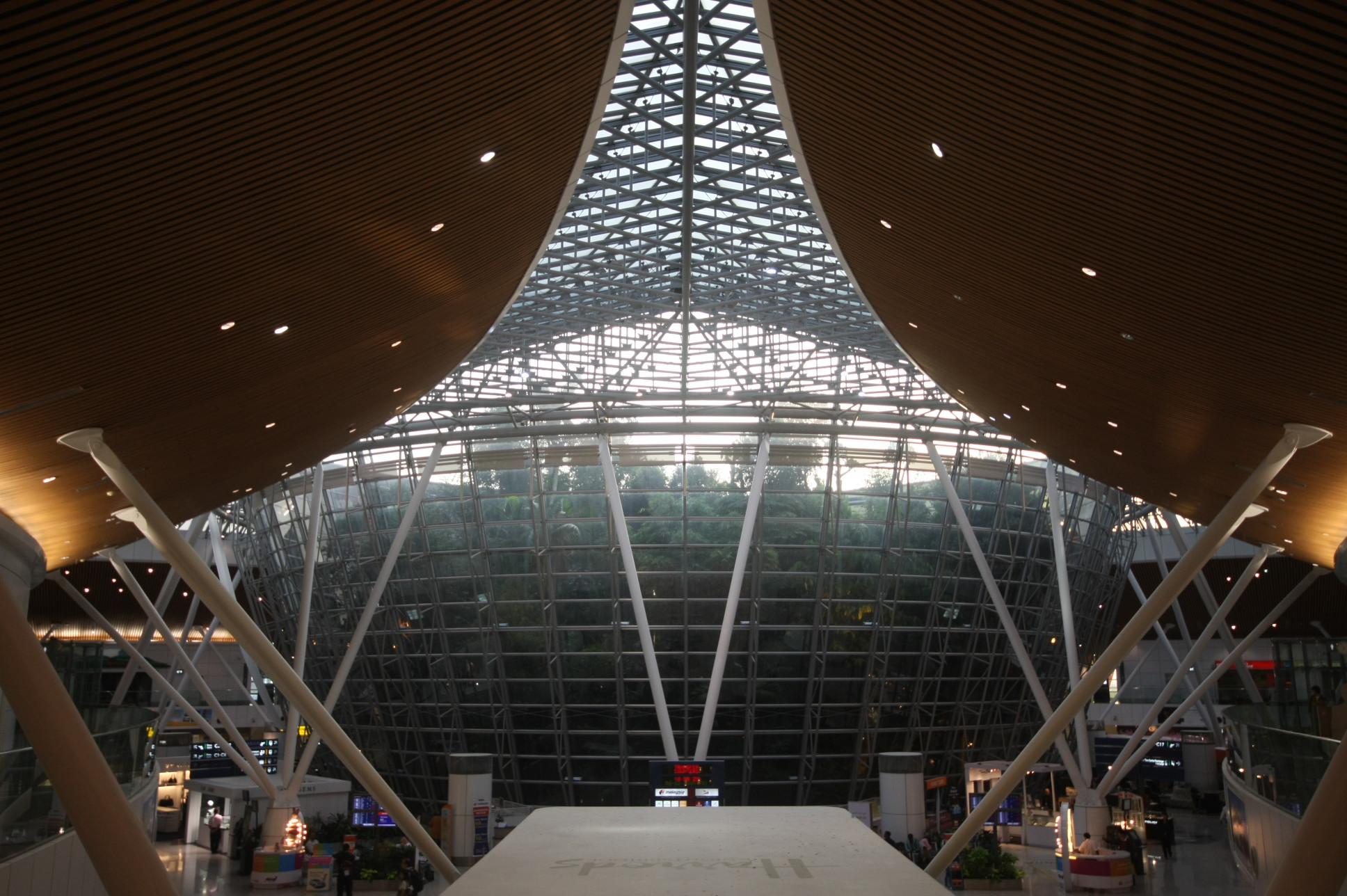 View to the palm trees in the center of the satellite building of the Kuala Lumpur International Airport.